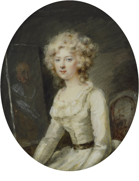 Portrait of Mademoiselle Jeanne-Philiberte Ledoux